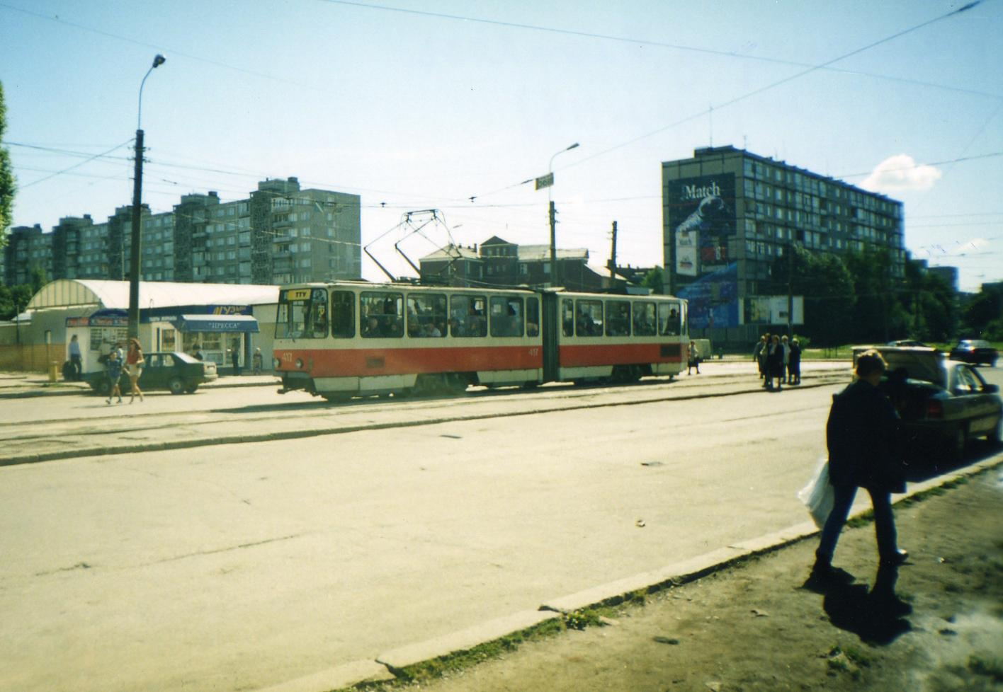 Object: a more modern tram in Kaliningrad Description: Tatra KT4SU tram (car No 417, line No5) in Kaliningrad, Russia. Photo taken on 9th Aprelya street.